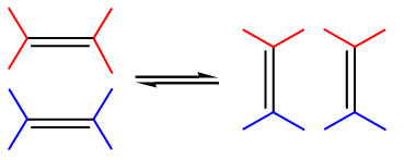 Overall olefin metathesis scheme